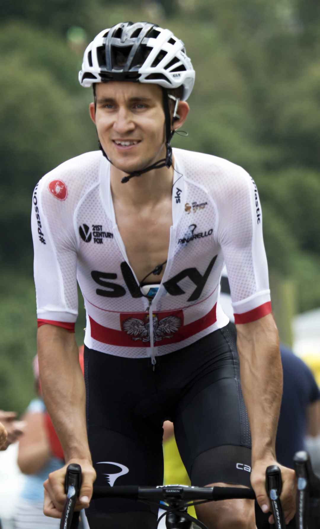 2018 Tour de France